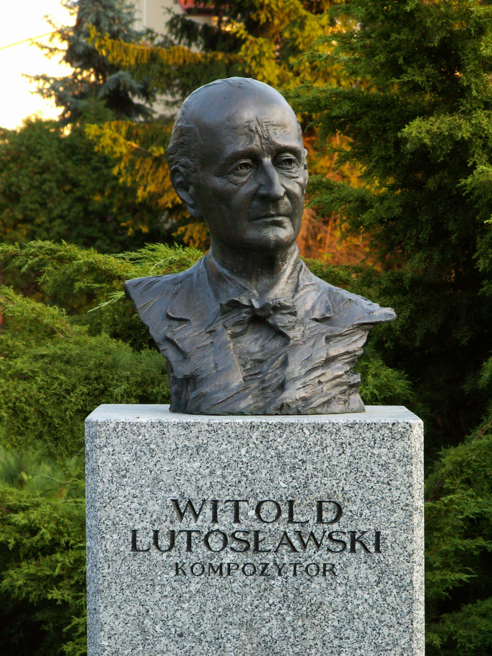 Bust of Witold Lutosławski in Celebrity Alley in Kielce (Poland)